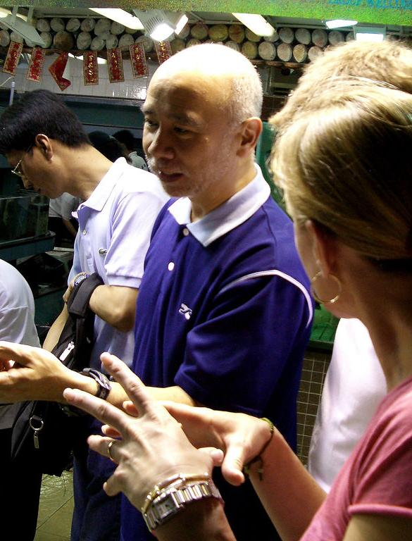 Peter Pau, a Hongkong-based cinematographer